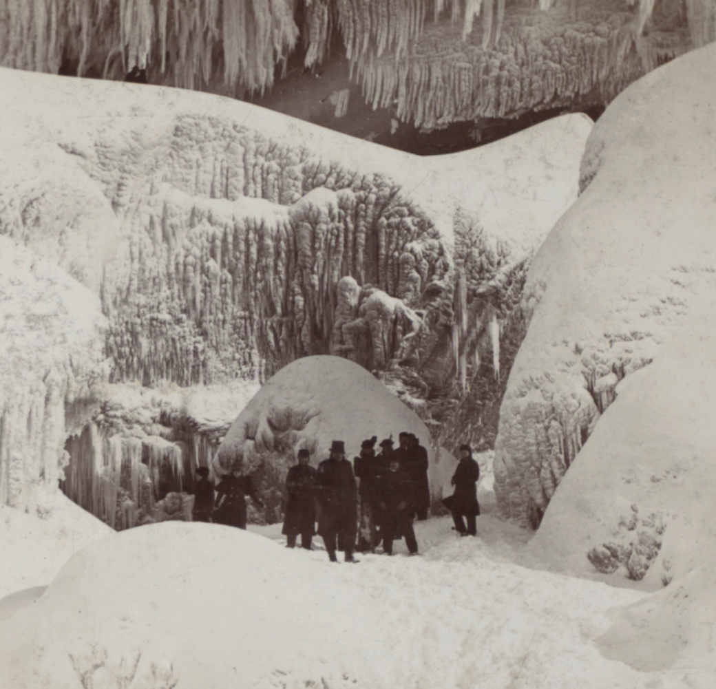 Includes eight hand-colored views. Includes views by Alfred S. Campbell, C.W. Woodward, Strohmeyer & Wyman and other photographers and publishers. Robert Dennis Collection of Stereoscopic Views. Some views offered as premiums by the American Cereal Co., in Pettijohn's Breakfast Food. Views of Niagara Falls: falls, rapids, islands, bridges, elevators, hotels, Terrepin Tower, winter scenes, railroads, fountains, parks, tourists and honeymooners.